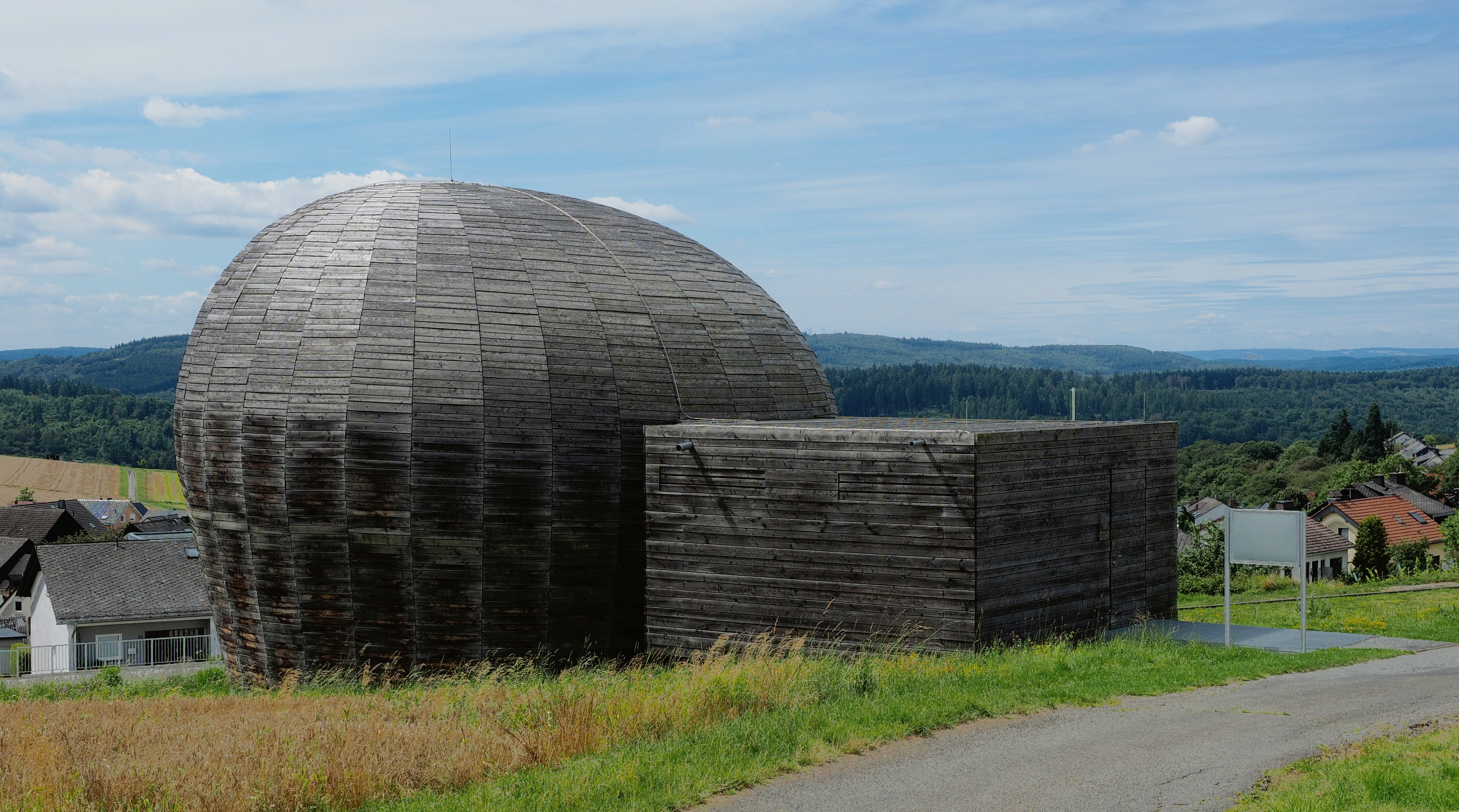 Langenseifen chapel